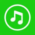 Logo of Line Music